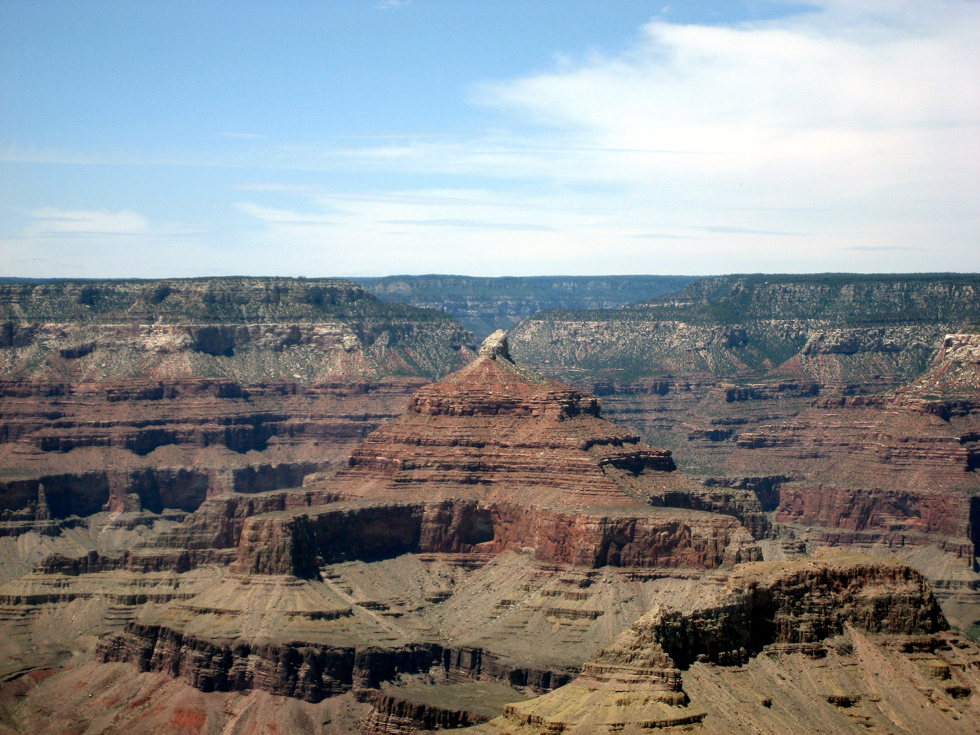 Isis Temple, a geological formation as viewed from the South Rim of Grand Canyon National Park. (view WNW, (flat-topped)-Shiva Temple, left, The Colonnade-terminus, right.--Close-up photo of Isis Temple peak, and the sub-prominence to its southeast, Cheops Pyramid. Isis and Cheops sit on an uplifted faulted block, with Unkar Group basement geology units-(of 6 members, Units 1 through 4). The Isis peak of Coconino Sandstone is upon Hermit Shale, (Supai Group)-Esplanade Sandstone, and cliffs of Redwall Limestone; upon Muav Limestone, Bright Angel Shale, (no Tapeats Sandstone, because it was a "mountain-island" in the Tapeats Sea (a Monadnock)). The Bright Angel sits on the cliffs of the thick cliff-forming unit of Shinumo Quartzite (Unkar Group unit 4). (The photo is from Mather Point, adjacent to east of Yavapai Point, (Grand Canyon Village, South Rim).)